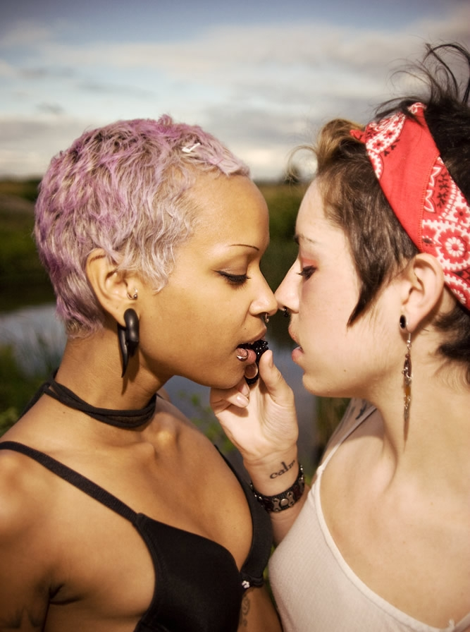 Malloreigh Starla